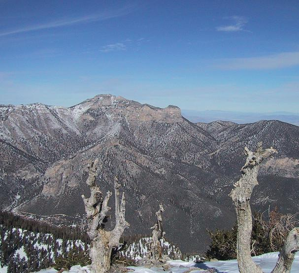 Mummy Mountain, as seen from Griffith Peak